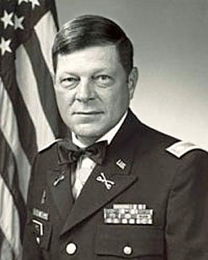 Vietnam War Medal of Honor Recipients (A - L) FRITZ, HAROLD A.